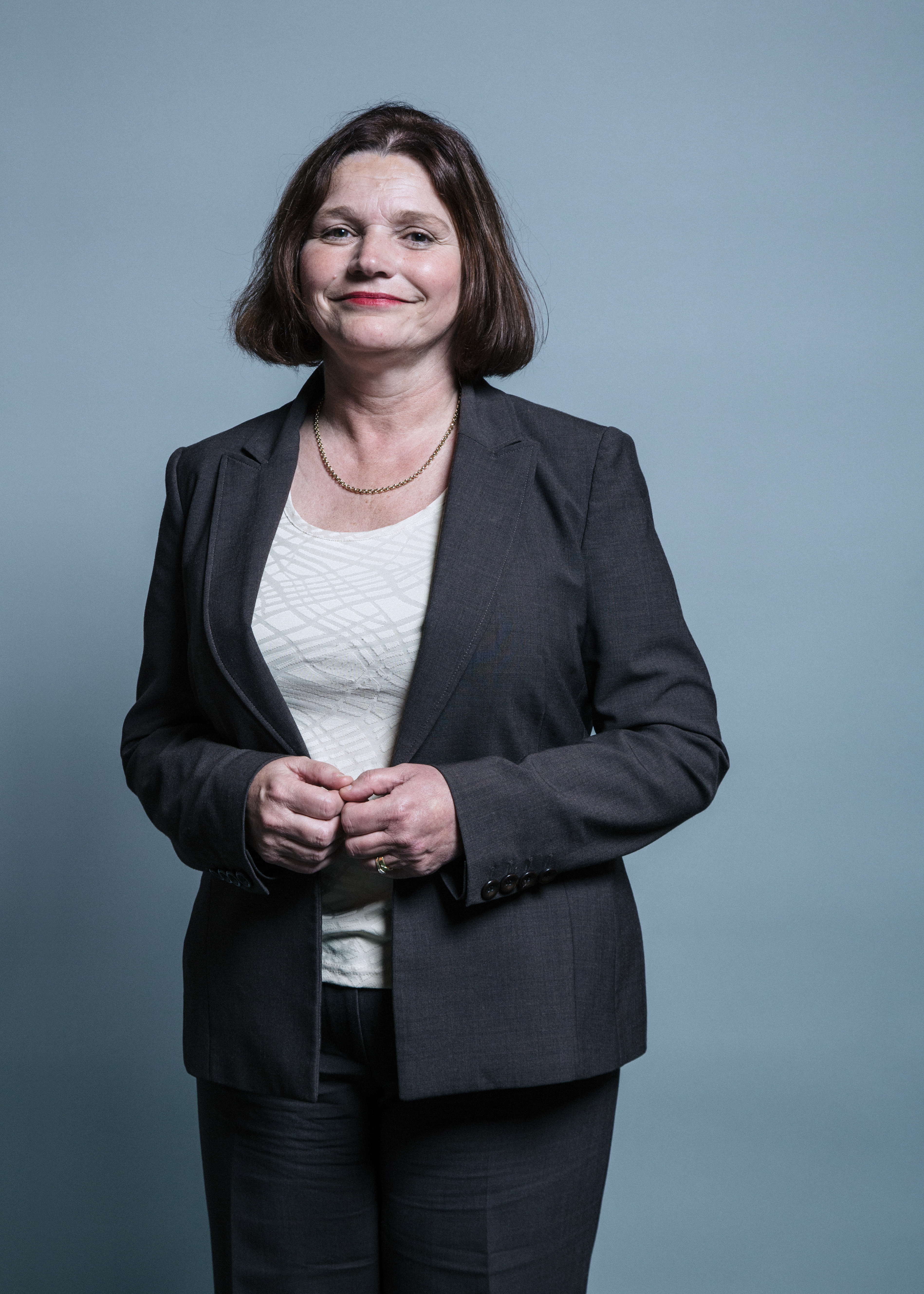 Official portrait of Julie Cooper